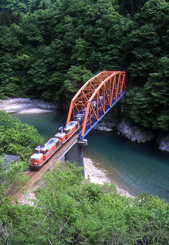 Freight train of Kamioka Railway